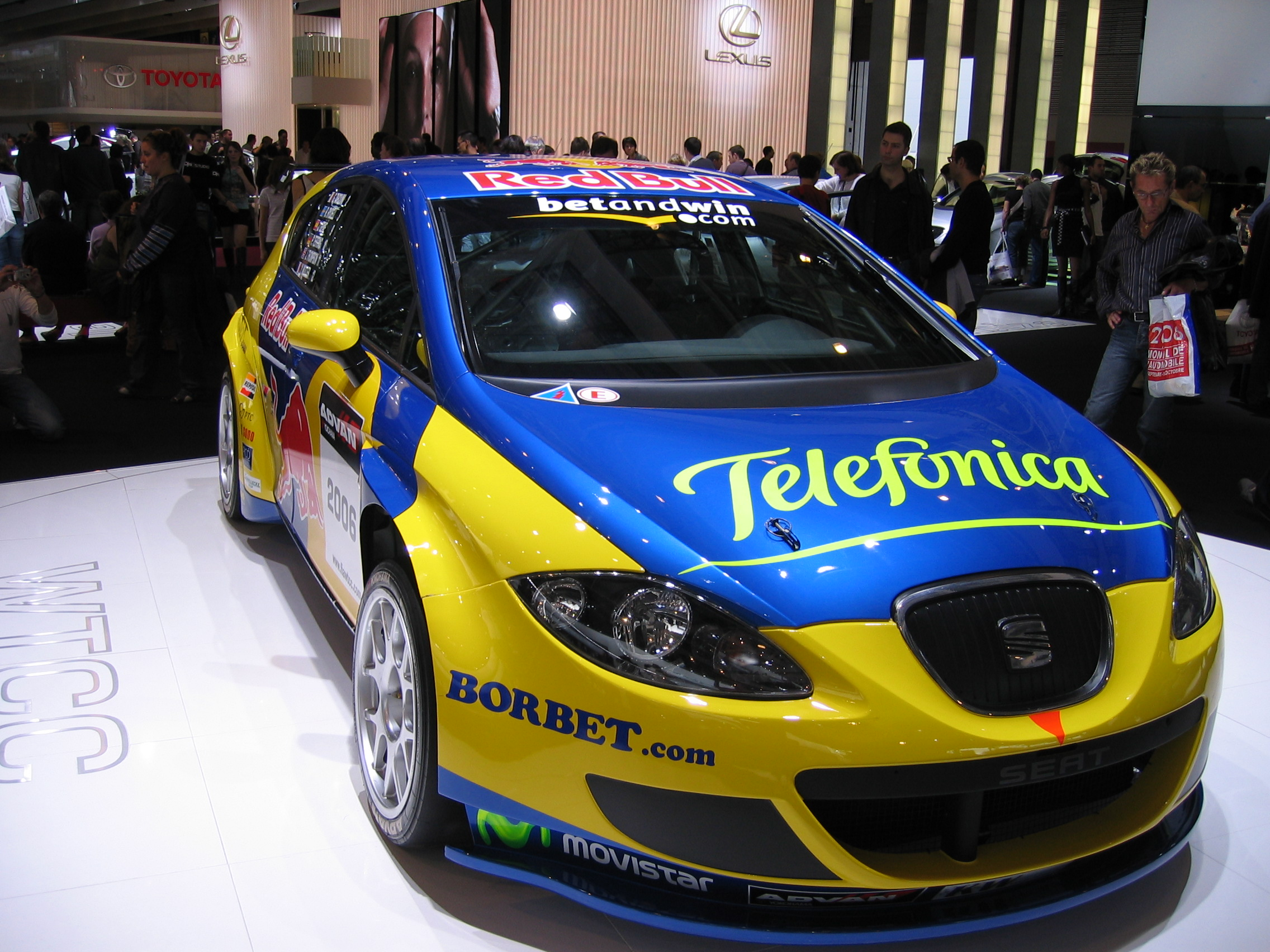 Seat Leon WTCC at the 2006 Paris Auto Show